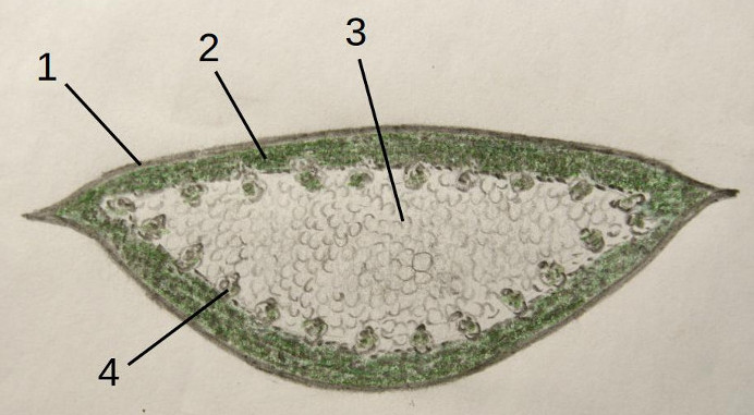 Drawing of cut leaf of aloe vera. 1 - cuticule. 2 - chloroplast parenchym. 3 - inner tissue. 4 - vascular bundles